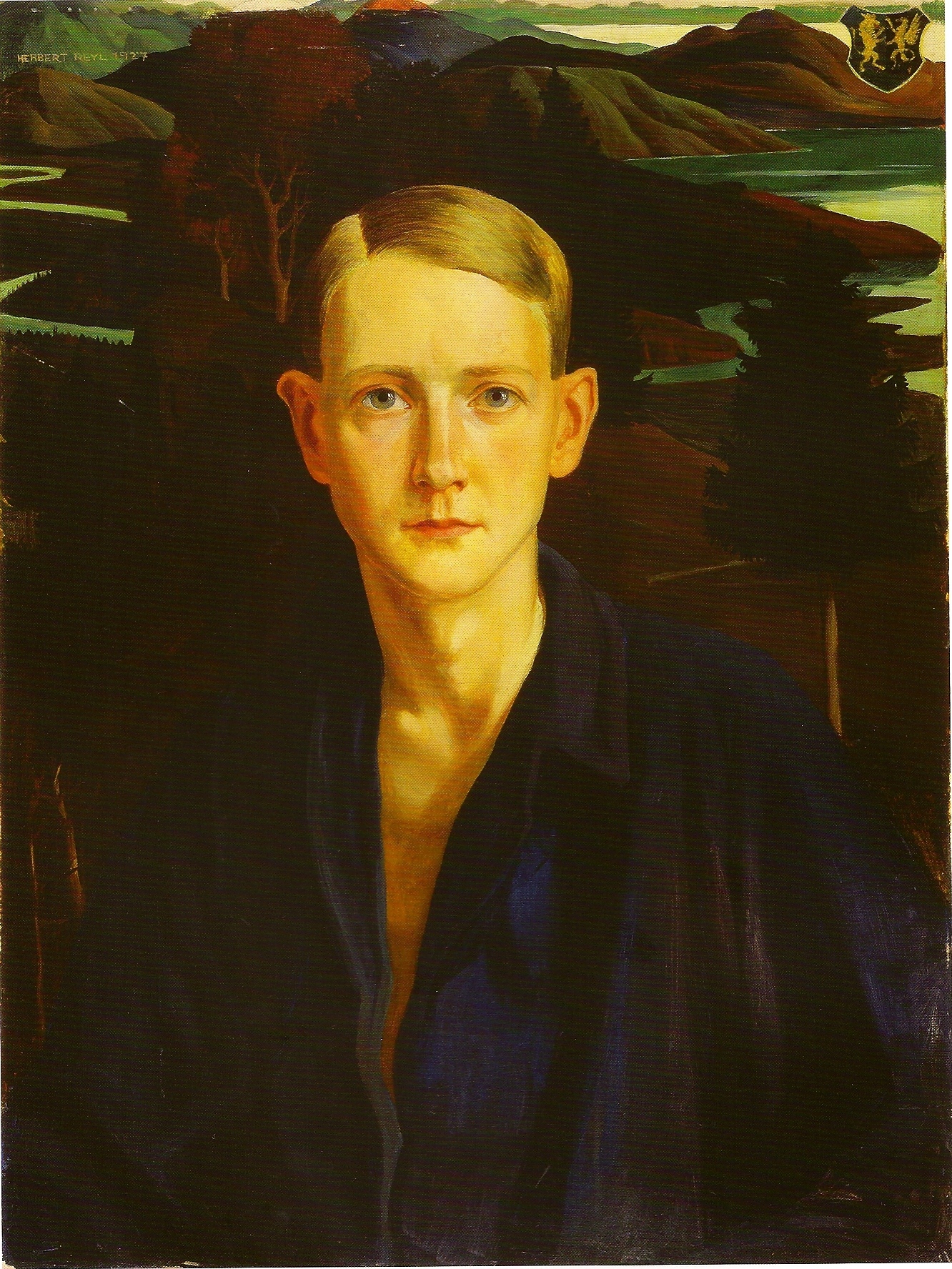 Selfportrait with blue jackett